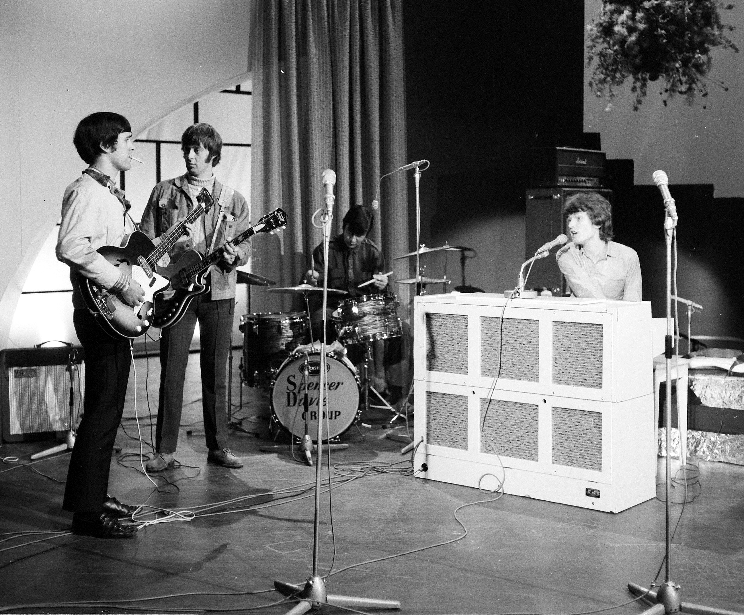 Rehearsal of The Spencer Davis Group, before performing at the Grand Gala du Disque, Concertgebouw Amsterdam, 30 Sept. 1966. From left to right: Muff Winwood (bass), Spencer Davis (guitar), Pete York (drums) & Steve Winwood (organ)